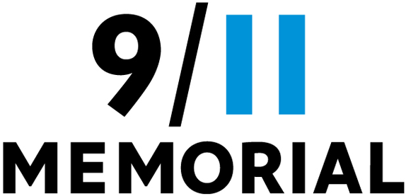 The logo for the National September 11 Memorial (9/11 Memorial).